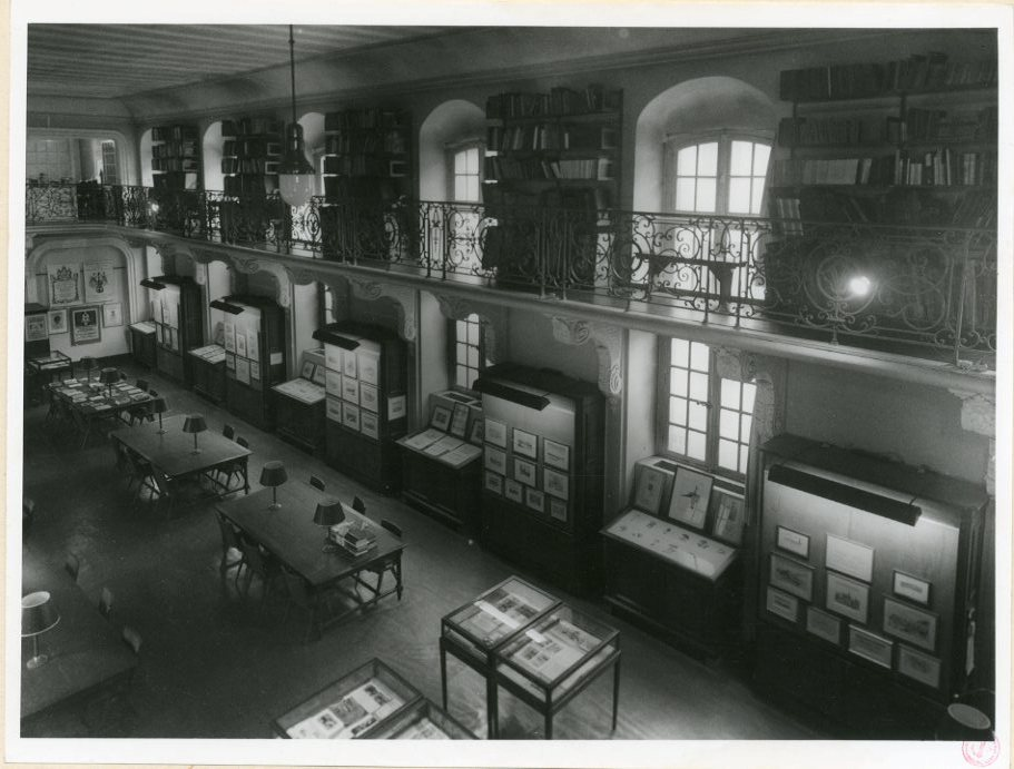 Vue de la salle de lecture du Cabinet des estampes et de la Bibliothèque des Musées de Strasbourg, vers 1965